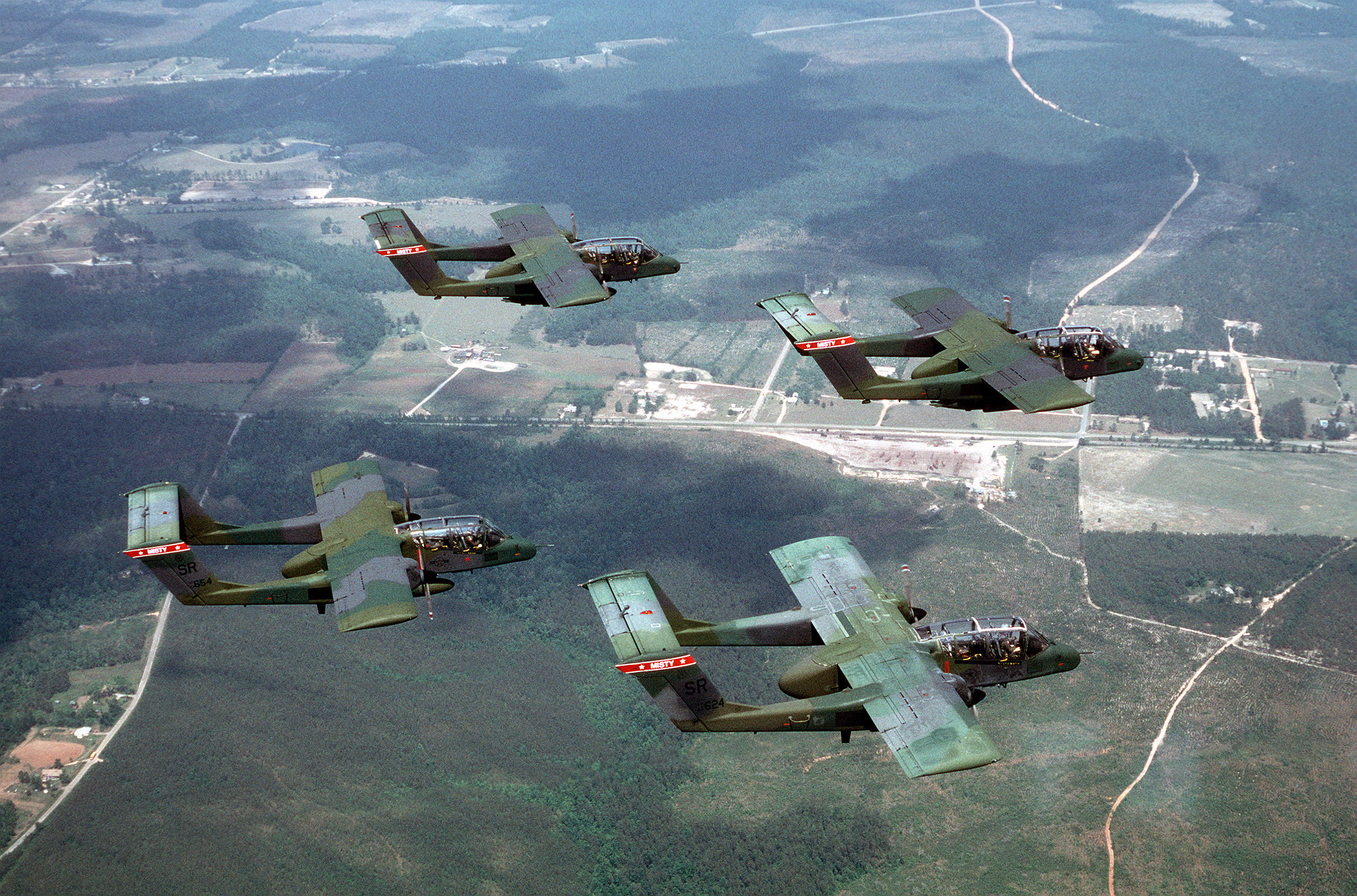 OV-10s from the 20th Tactical Air Support Squadron at Shaw Air Force Base 5/1/1990 USAF Official Photo